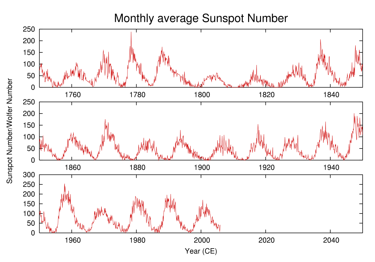 This chart depicts average monthly Sunspot Number variation since 1750. This figure was produced by Leland McInnes using gnuplot. All data is from publicly available sources.